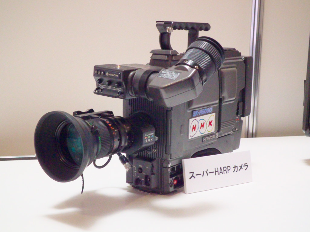 The same model of Hitachi camera "SK-H5000" that was used to shoot the whole story that boy will be rescued at the scene of landslide in the 2004 Mid Niigata Prefecture Earthquake.